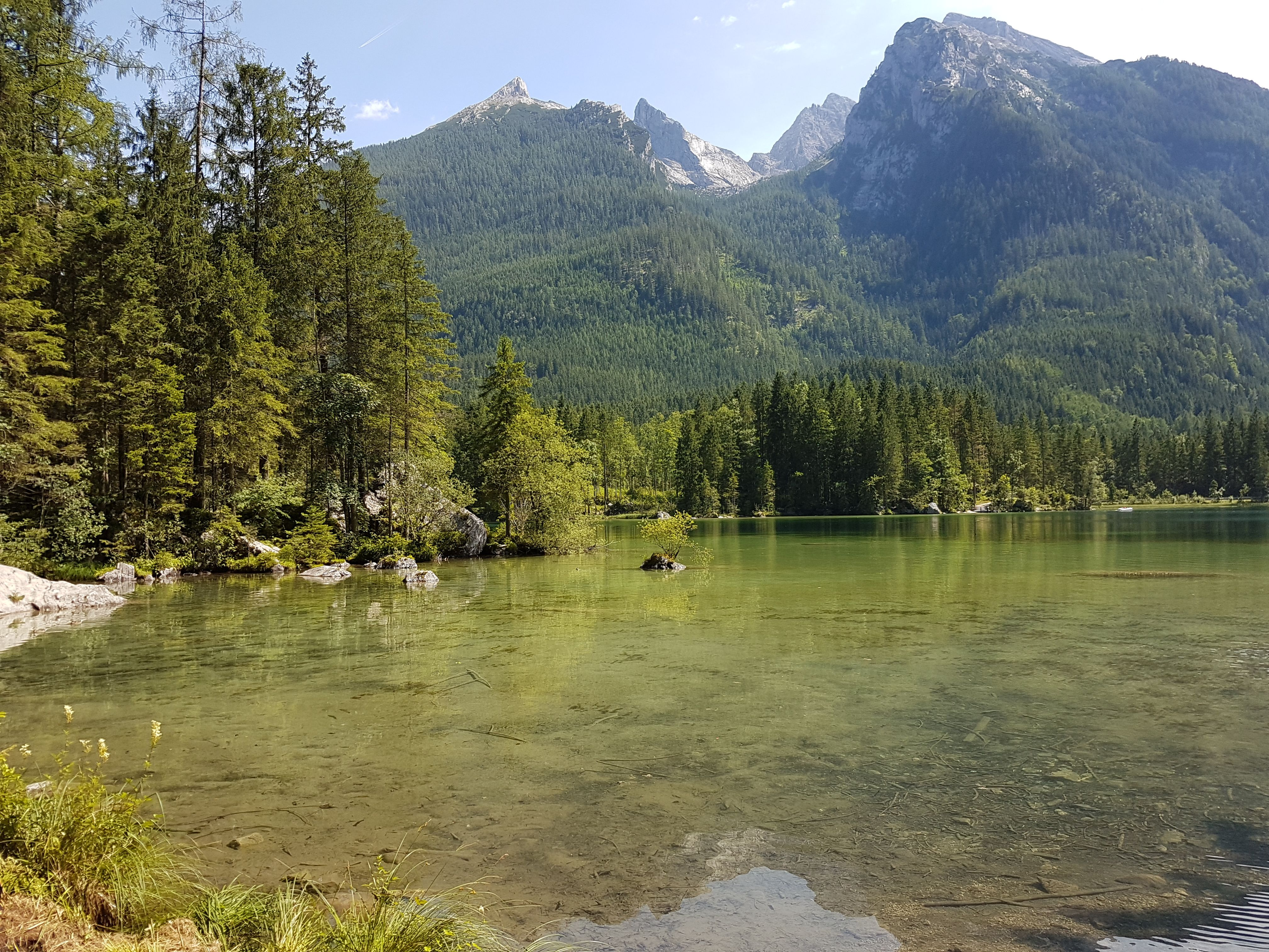 Lake Hintersee at the edge of the Magic Forest and view on the Blaueis summit; biosphere reserve Berchtesgadener Land